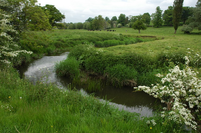 Bow Brook near Froxmere Court Bow Brook flows along the western edge of parkland near Froxmere Court. The brook is a tributary of the River Avon, flowing into it near Defford.